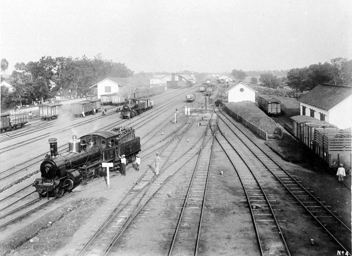 Railwayemplacement in Maos, West-Java